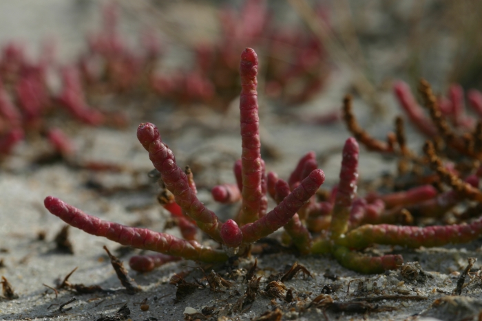 Sarcocornia perennis in Mekszikópuszta, Hungary